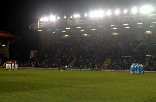 Ashton Gate Staium during a match between Bristol City and Bristol Rovers.